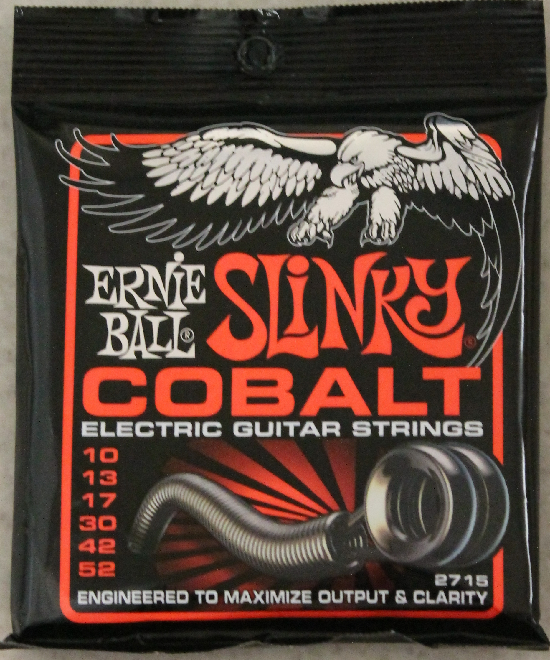 Ernie Ball Slinky Cobal -10-52 -electric guitar strings. They contain cobalt to increase output and clarity.